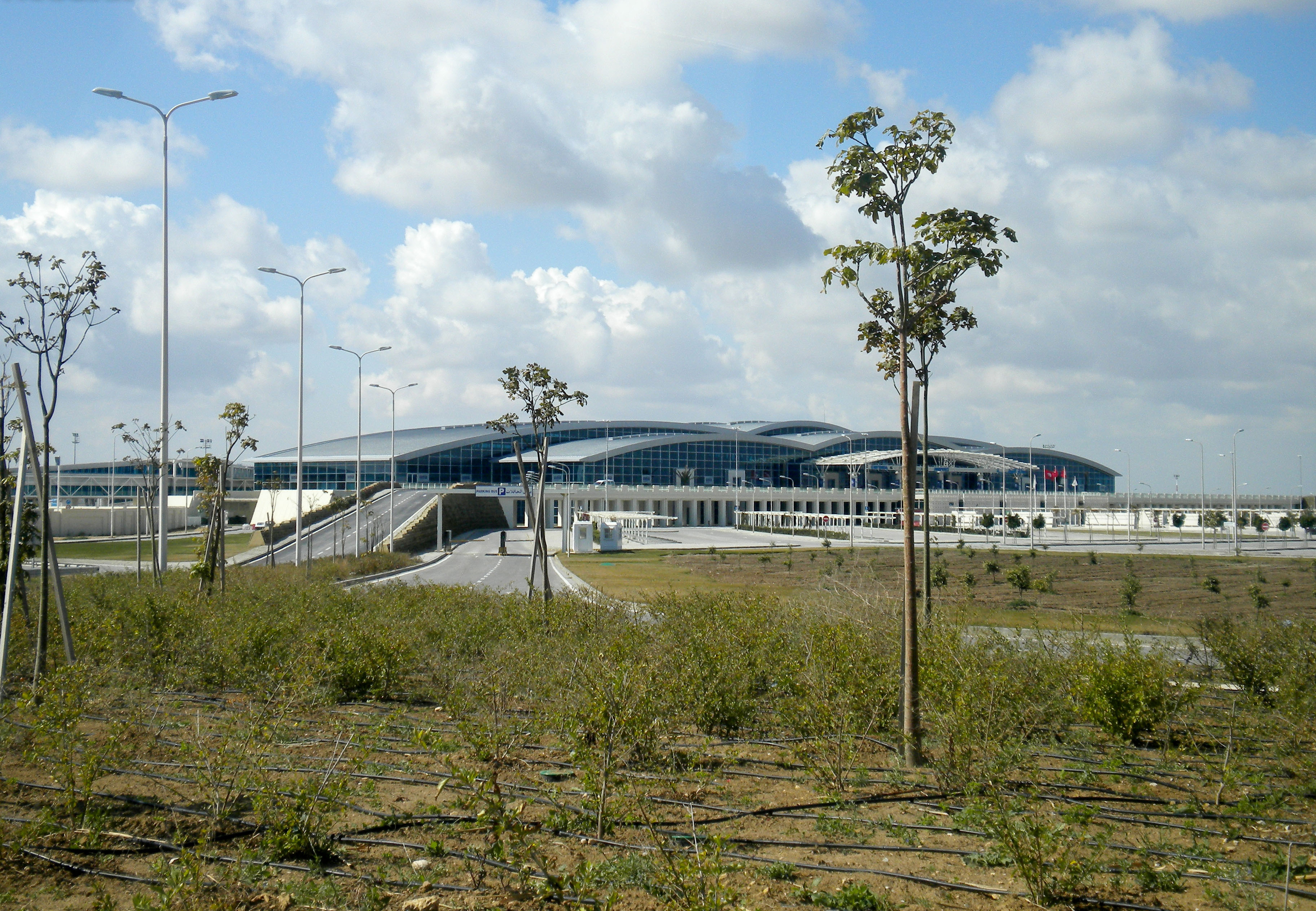 View Enfidha Hammamet International Airport